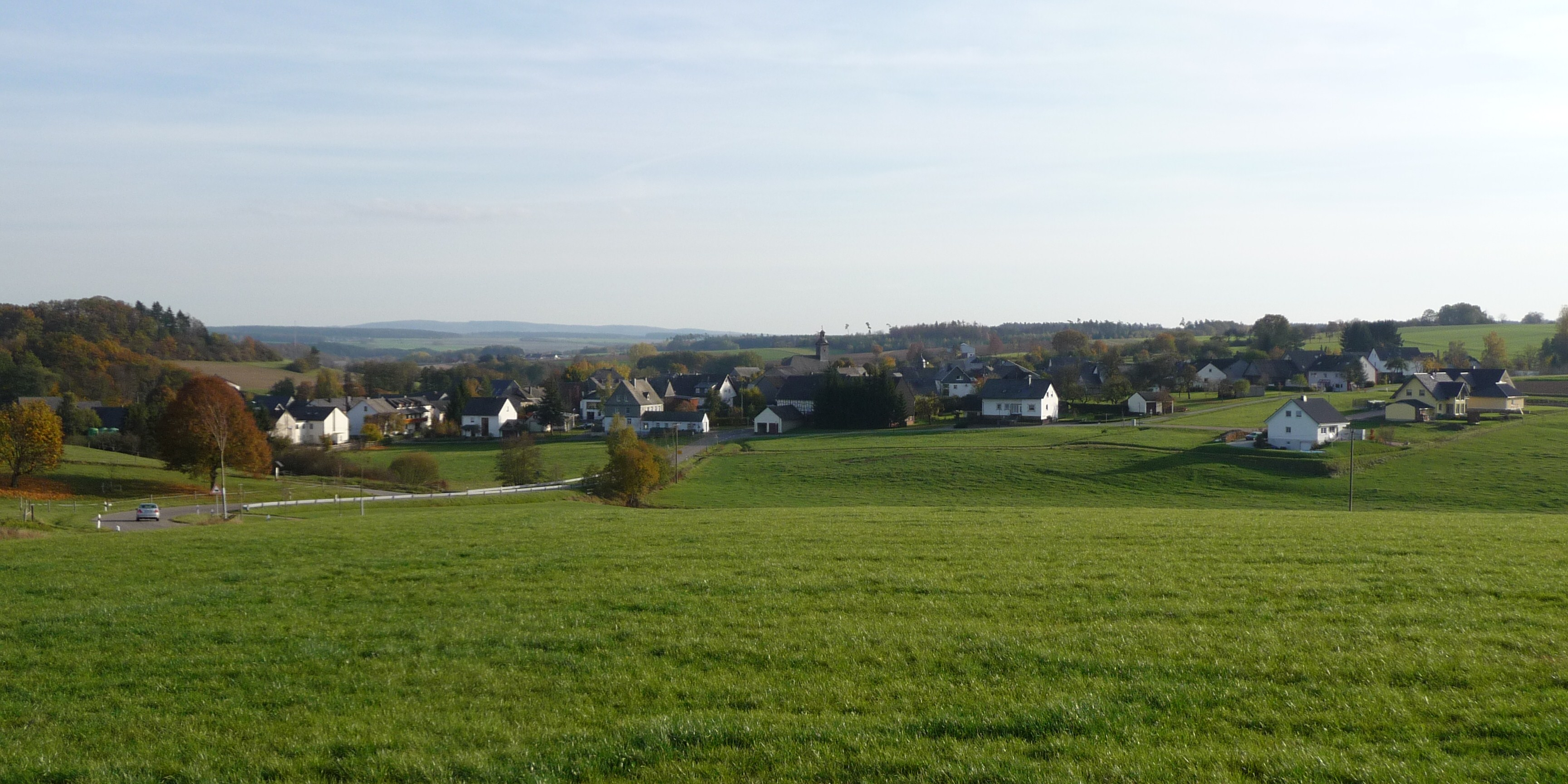 Ober Kostenz from north-west. Ober Kostenz is a municipality in the district of Rhein-Hunsrück in Rhineland-Palatinate, western Germany.